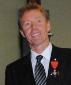 Ross Norman, after his investiture as MNZM, on 25 March 2014